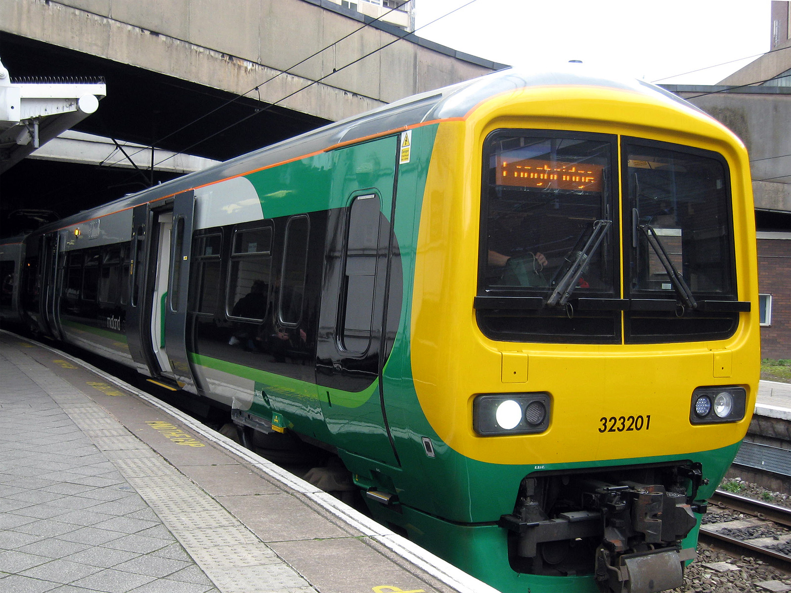 Refurbished London Midland British Rail Class 323 at Birmingham New Street. Unit number 323201.